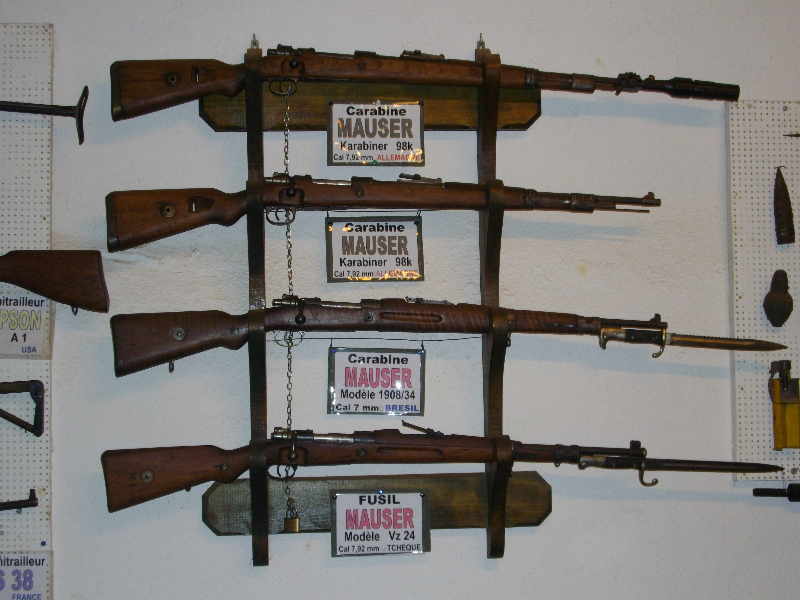 Rifle and carbines Mauser in Hackenberg museum (Veckring, Moselle, France). From up to down : 2carbines Mauser Karabiner 98k ; carbine Mauser model 1908/34 ; rifle Mauser model Vz24